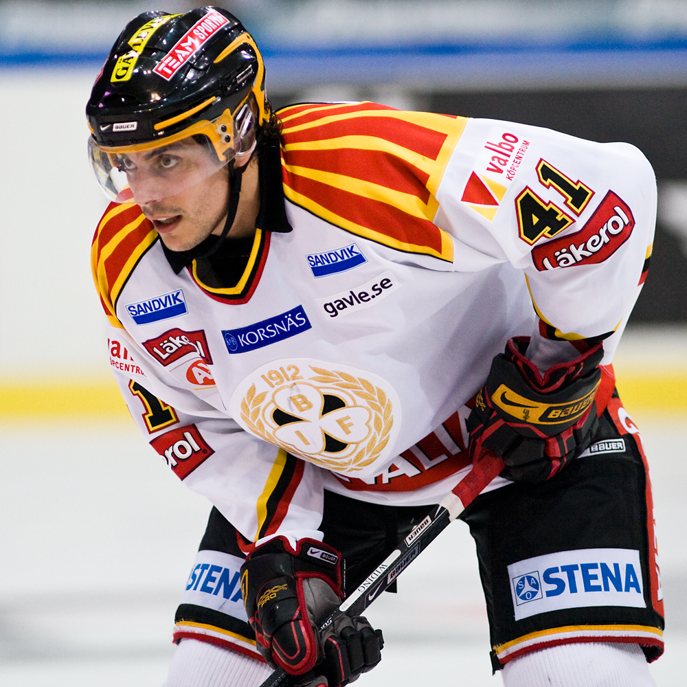 Daniel Widing of Brynäs IF during an Elitserien game against Frölunda HC in Scandinavium, Gothenburg, on October 13, 2008.